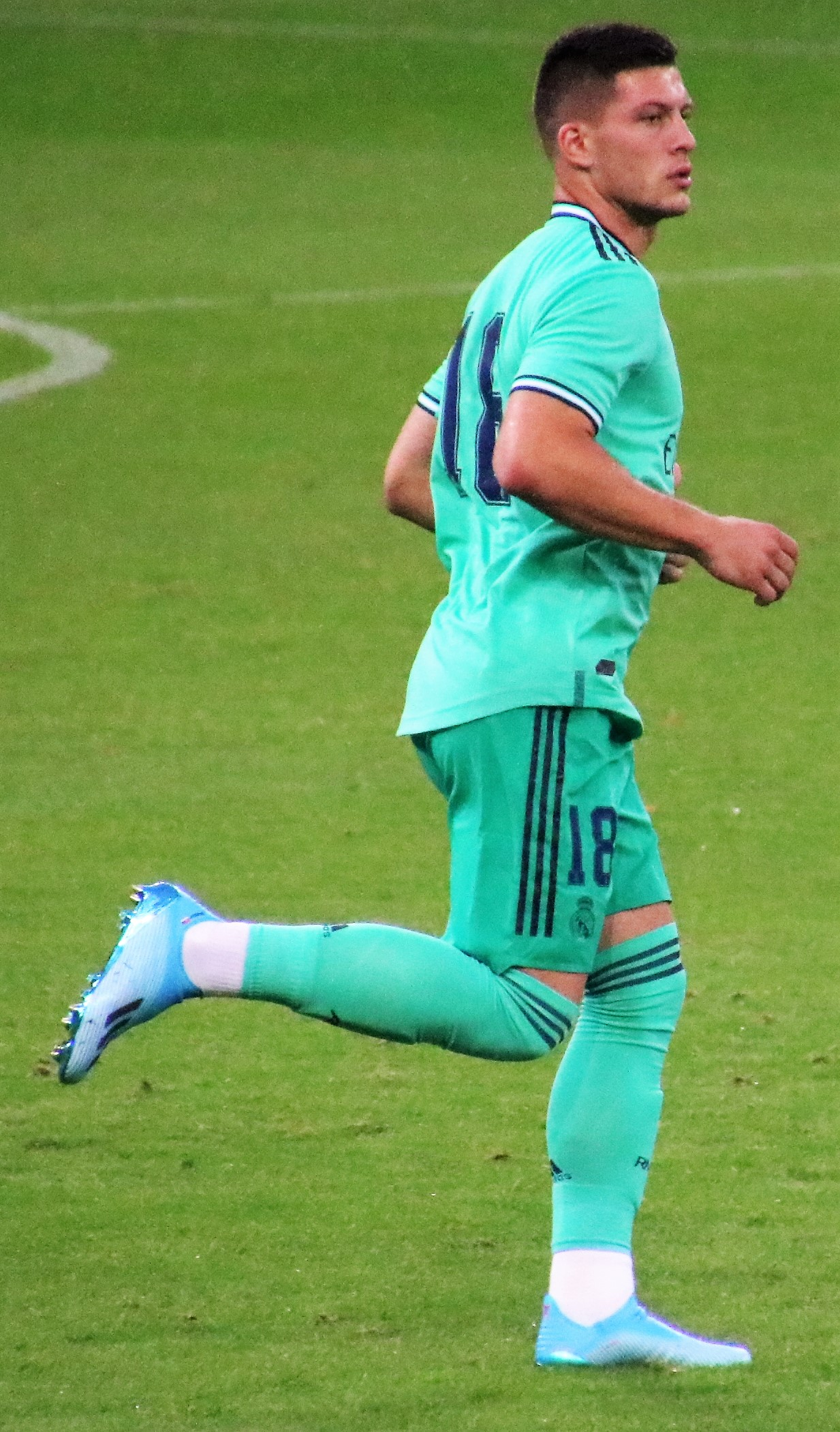 Preseason match